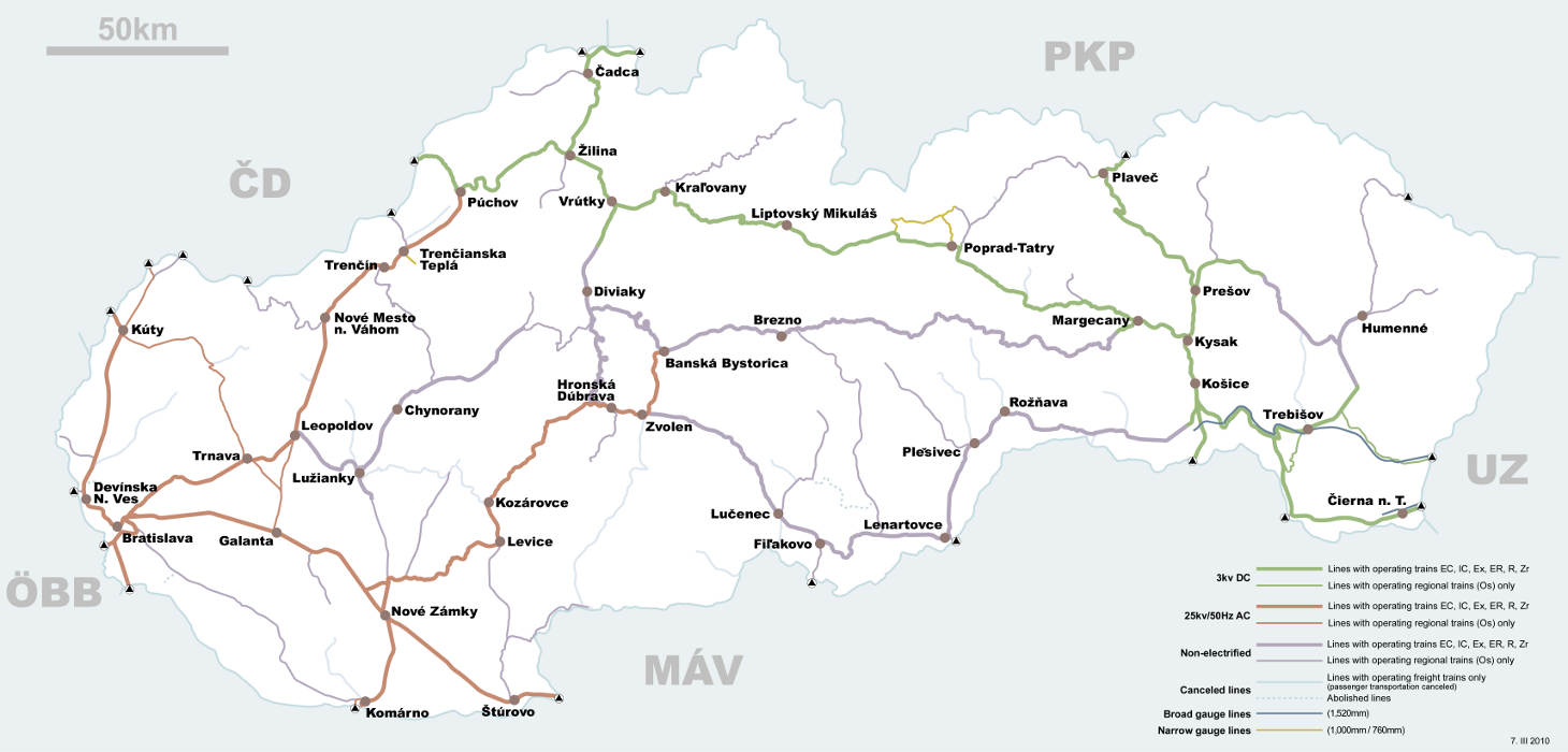 Map of ŽSR Railway Lines with English.